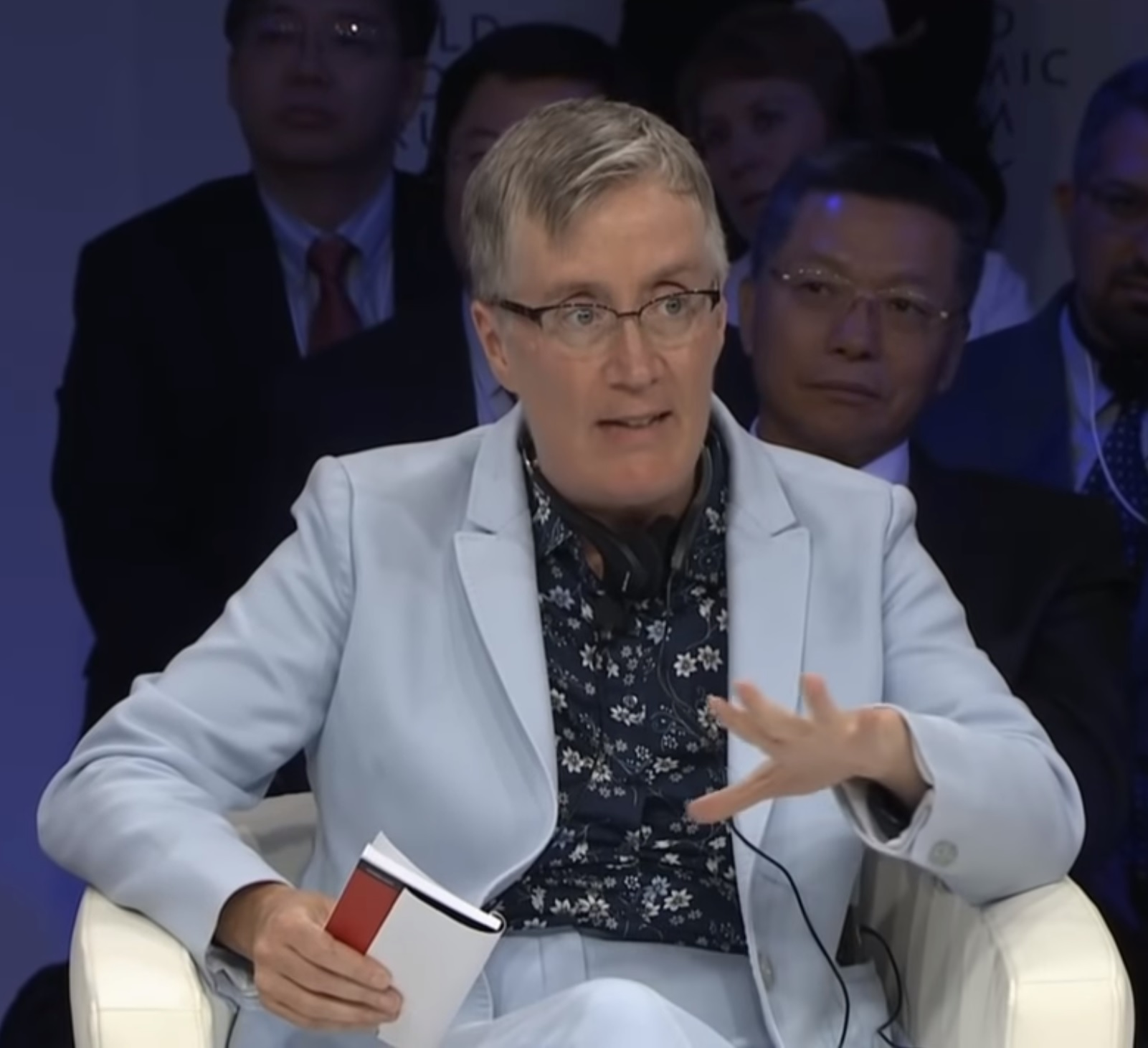 Joanna Bryson, Professor, Department of Computer Science, University of Bath, United Kingdom, speaks at the World Economic Forum "Global Conversation on Artificial Intelligence"